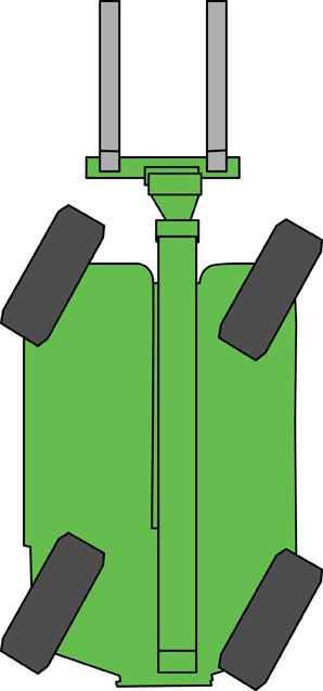 Schematic drawing of a telescopic handler showing crab steering mode